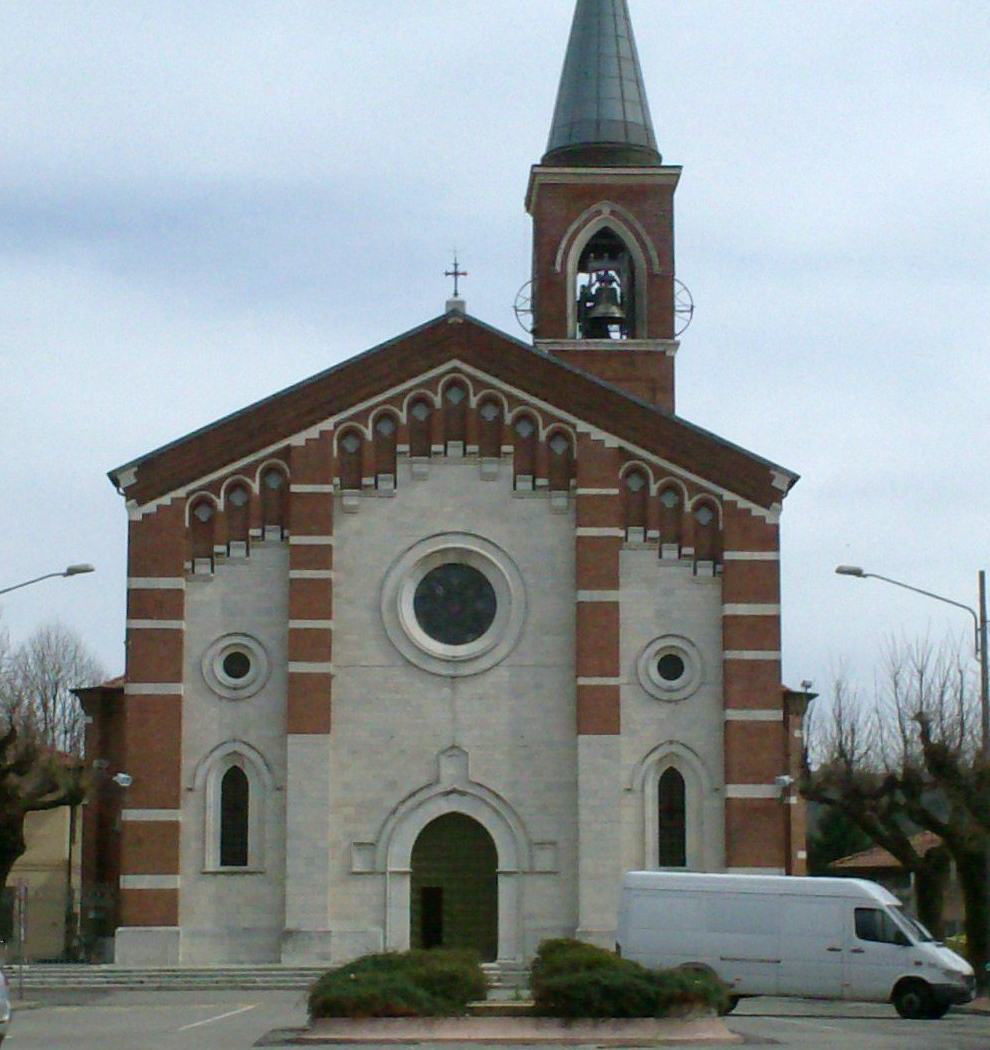 Varano Borghi, Parish Church.